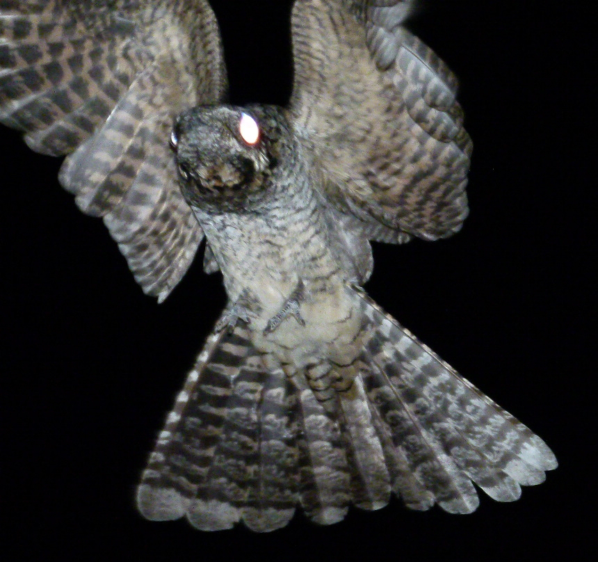 Caprimulgus indicus in flight, Wynaad, India (February 2012)